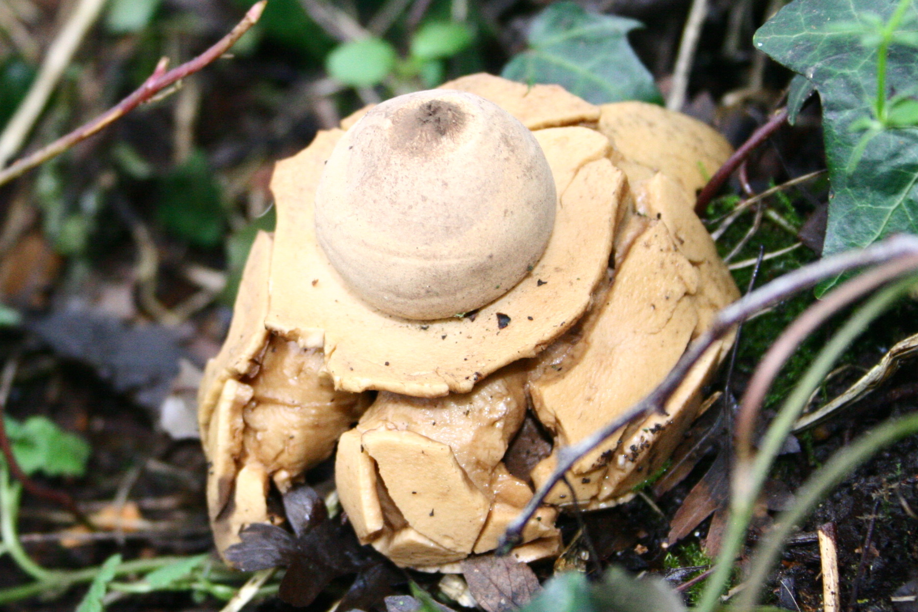 Geastrum triplex in a field hedge in Hampton-in-Arden, England.